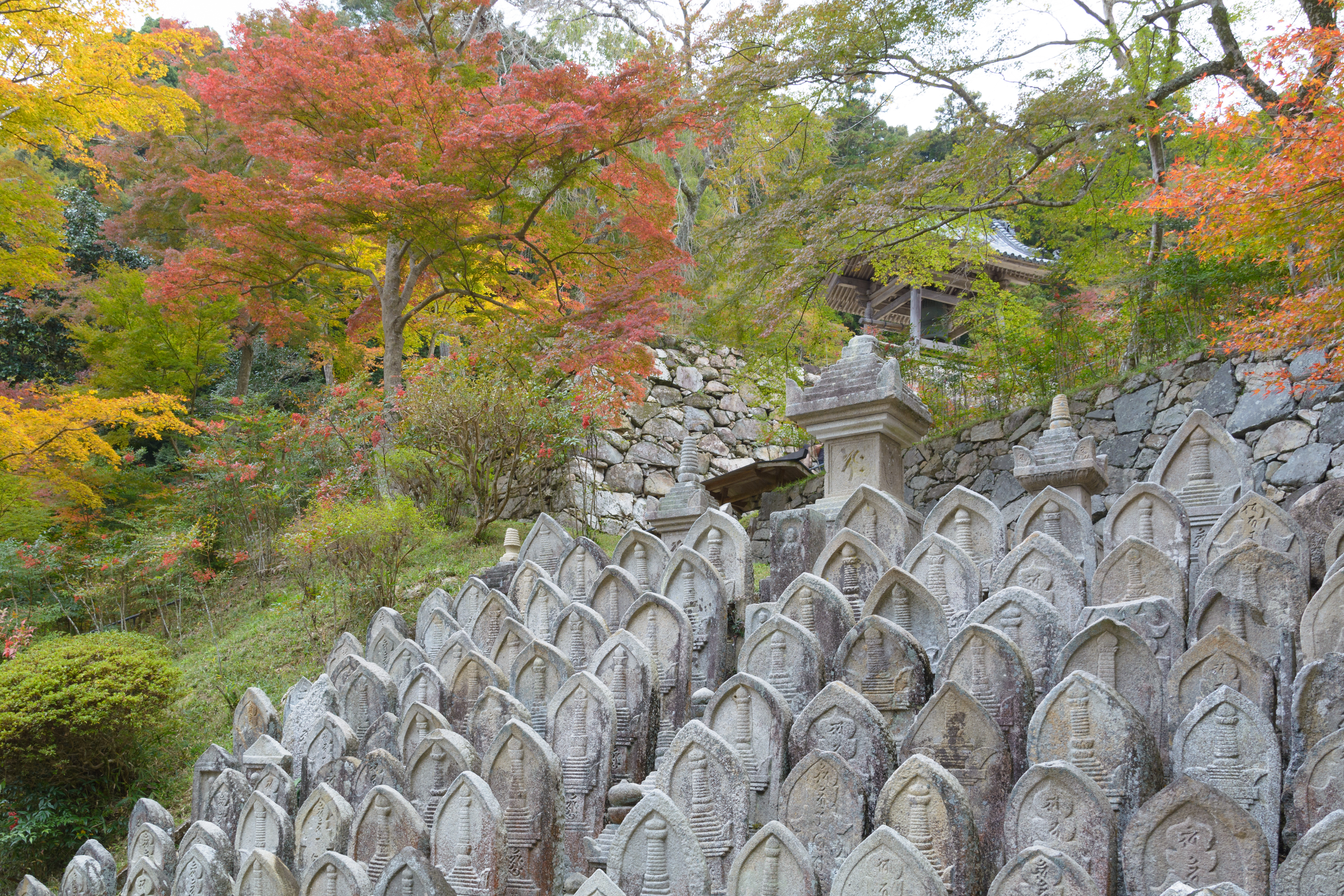 Shoryaku-ji, in Nara, Nara prefecture